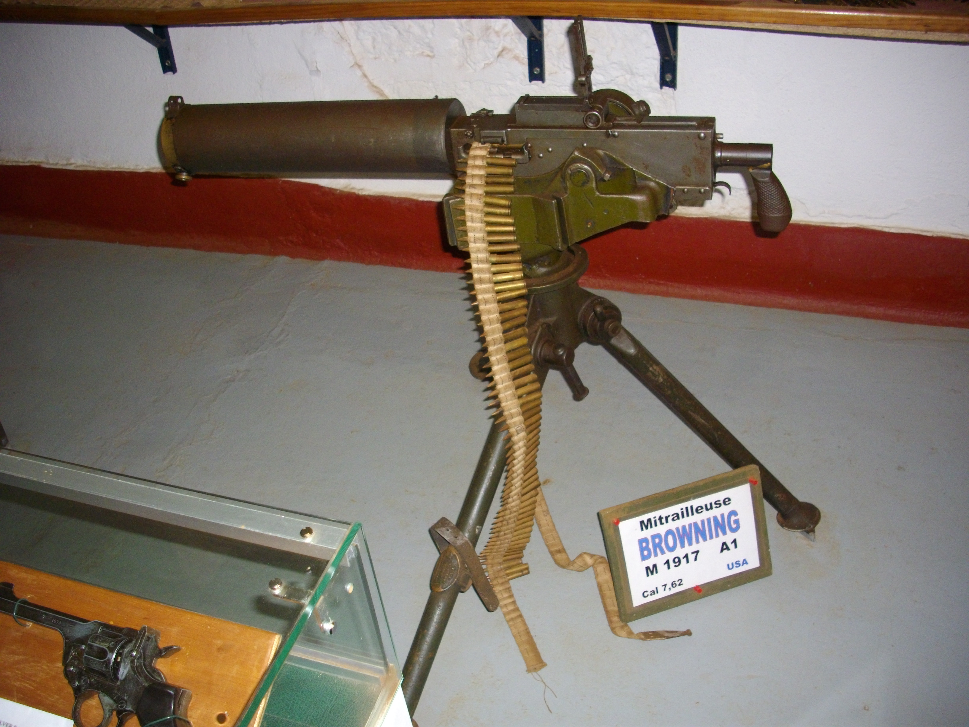 Machine gun browning M1917 in Hackenberg museum (Veckring, Moselle, France)